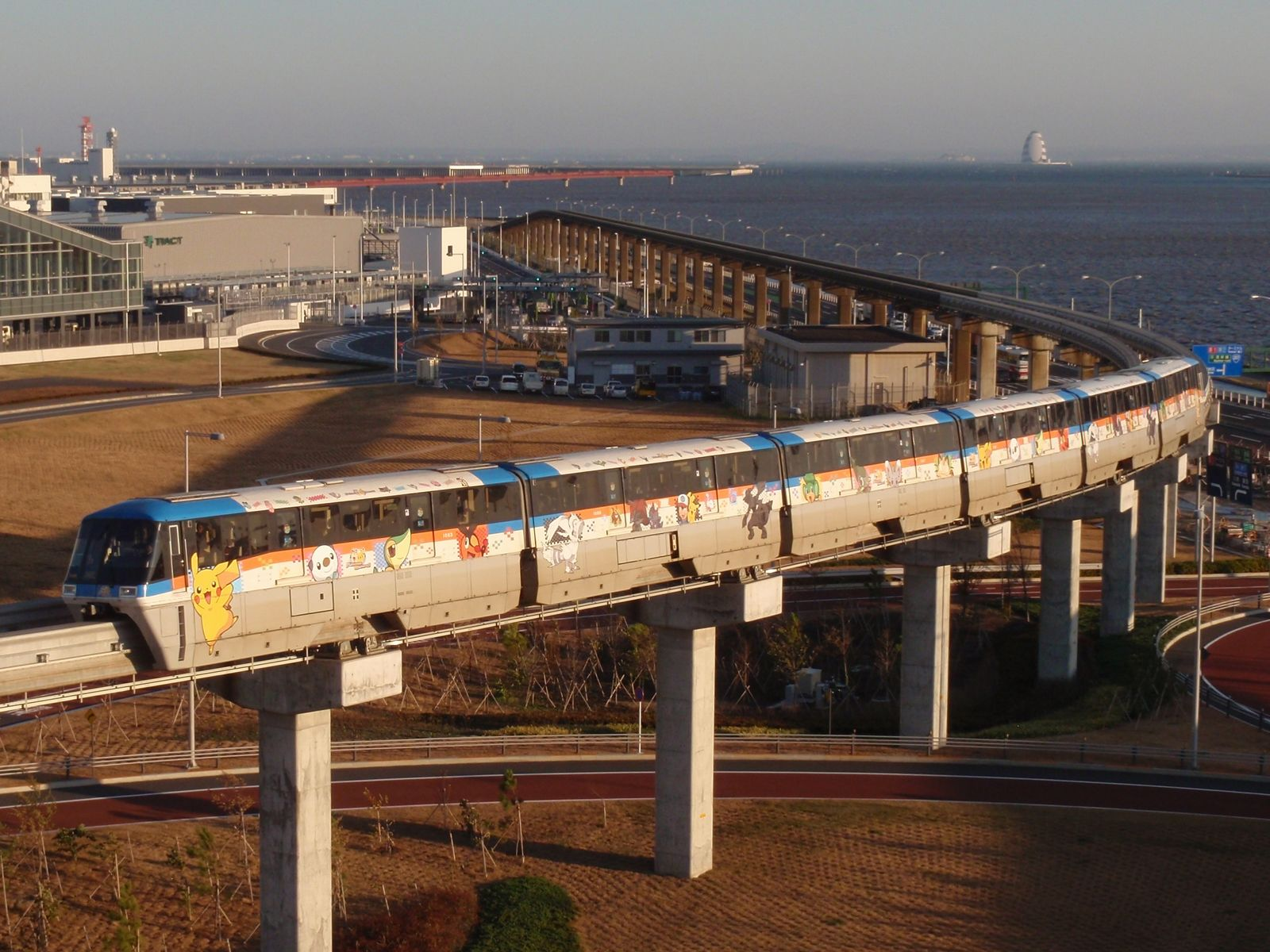 EMU type 1000 of Tokyo Monorail.